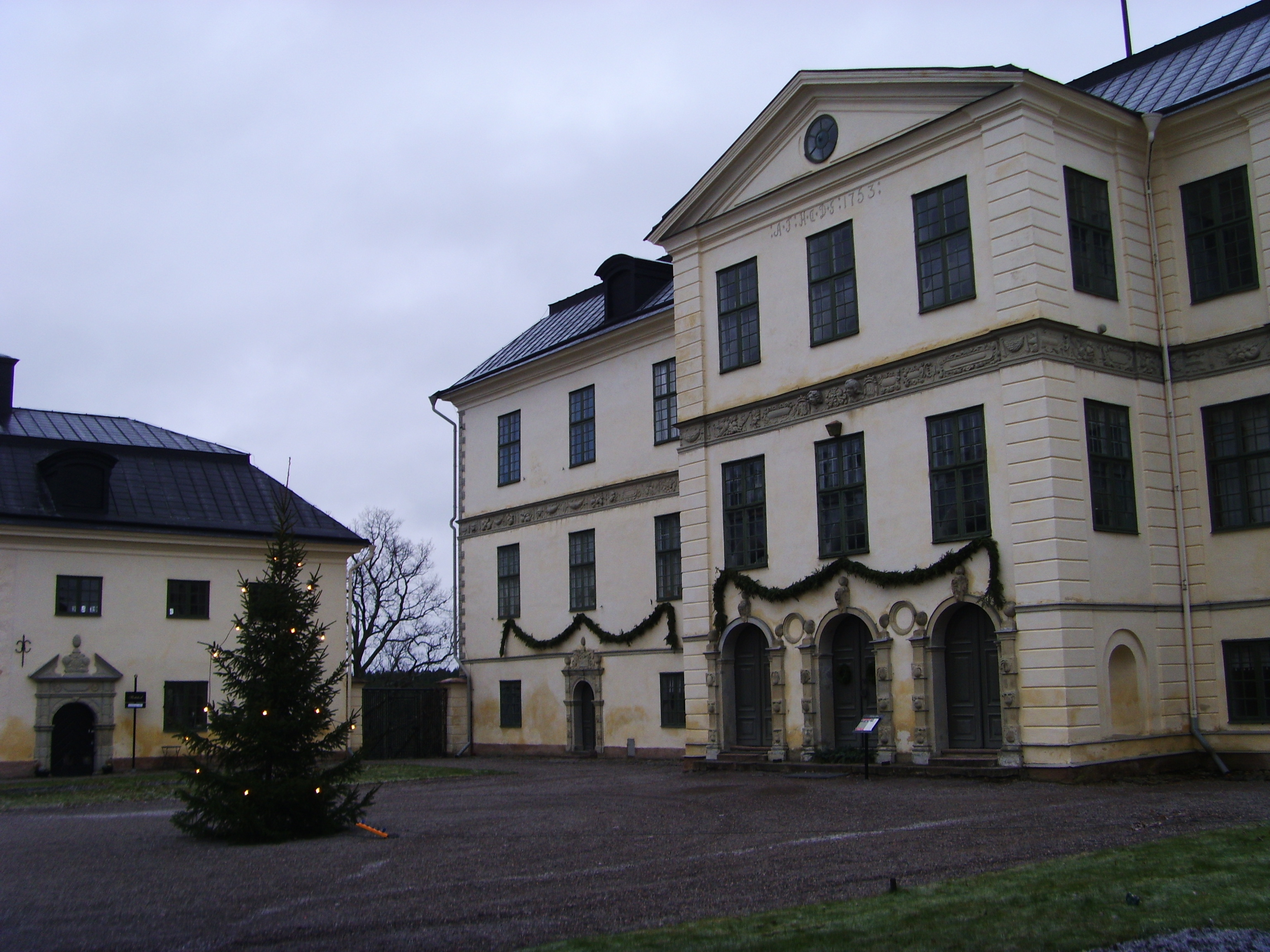 Löfstad Castle is situated outside Norrköping, the province of Östergötland, Sweden.